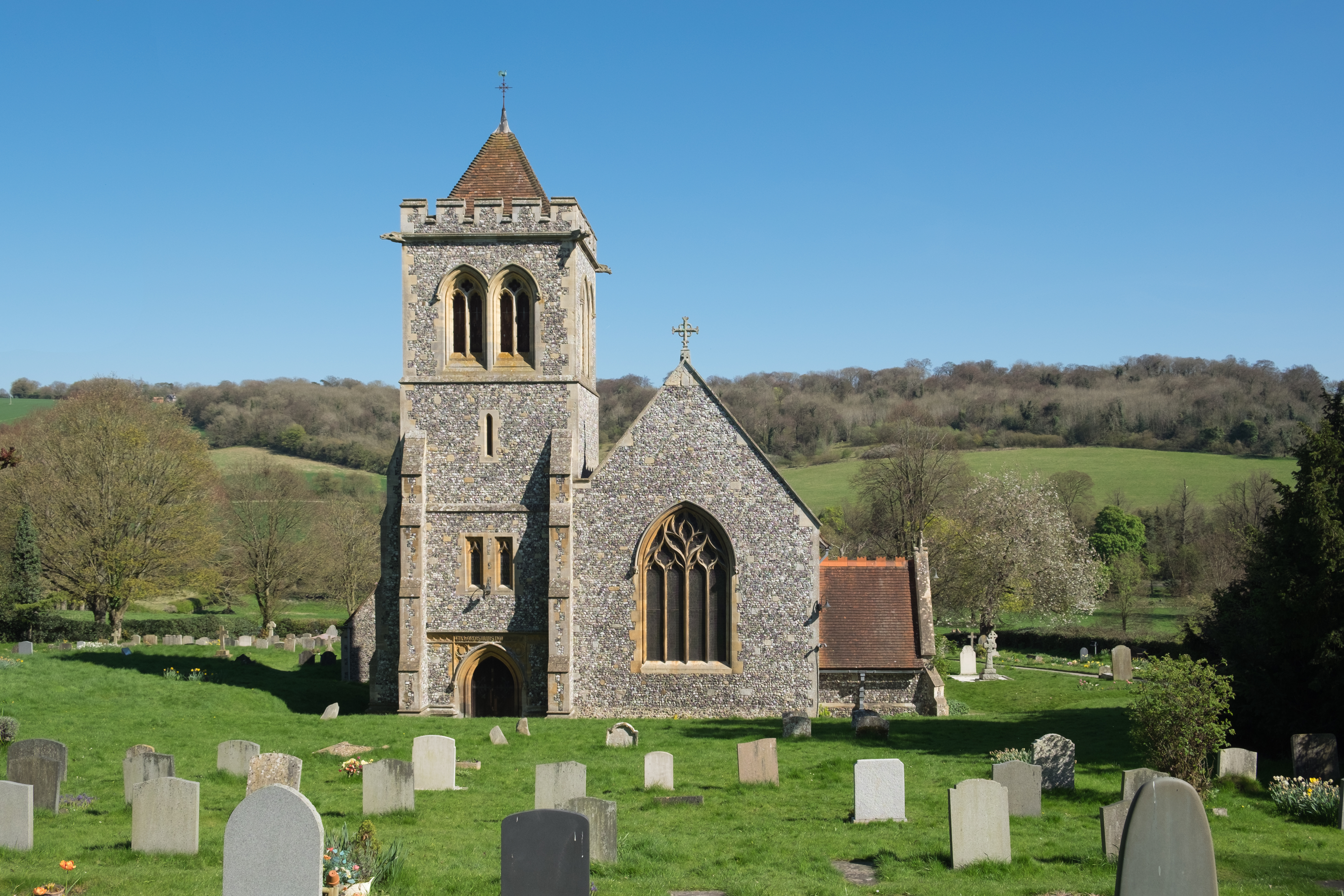 The Parish Church of St Michael and All Angels, Hughenden, Buckinghamshire. This church is a Grade II* listed building in England.